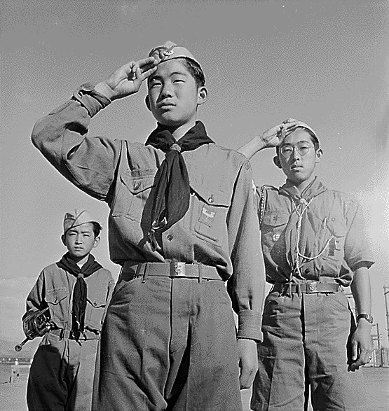 The full caption for this photograph reads: Heart Mountain Relocation Center, Heart Mountain, Wyoming. Boy Scouts conducting a morning flag raising cermony at the Heart Mountain Relocation Center, where persons of Japanese ancestry, evacuated from west coast defense areas, now reside.